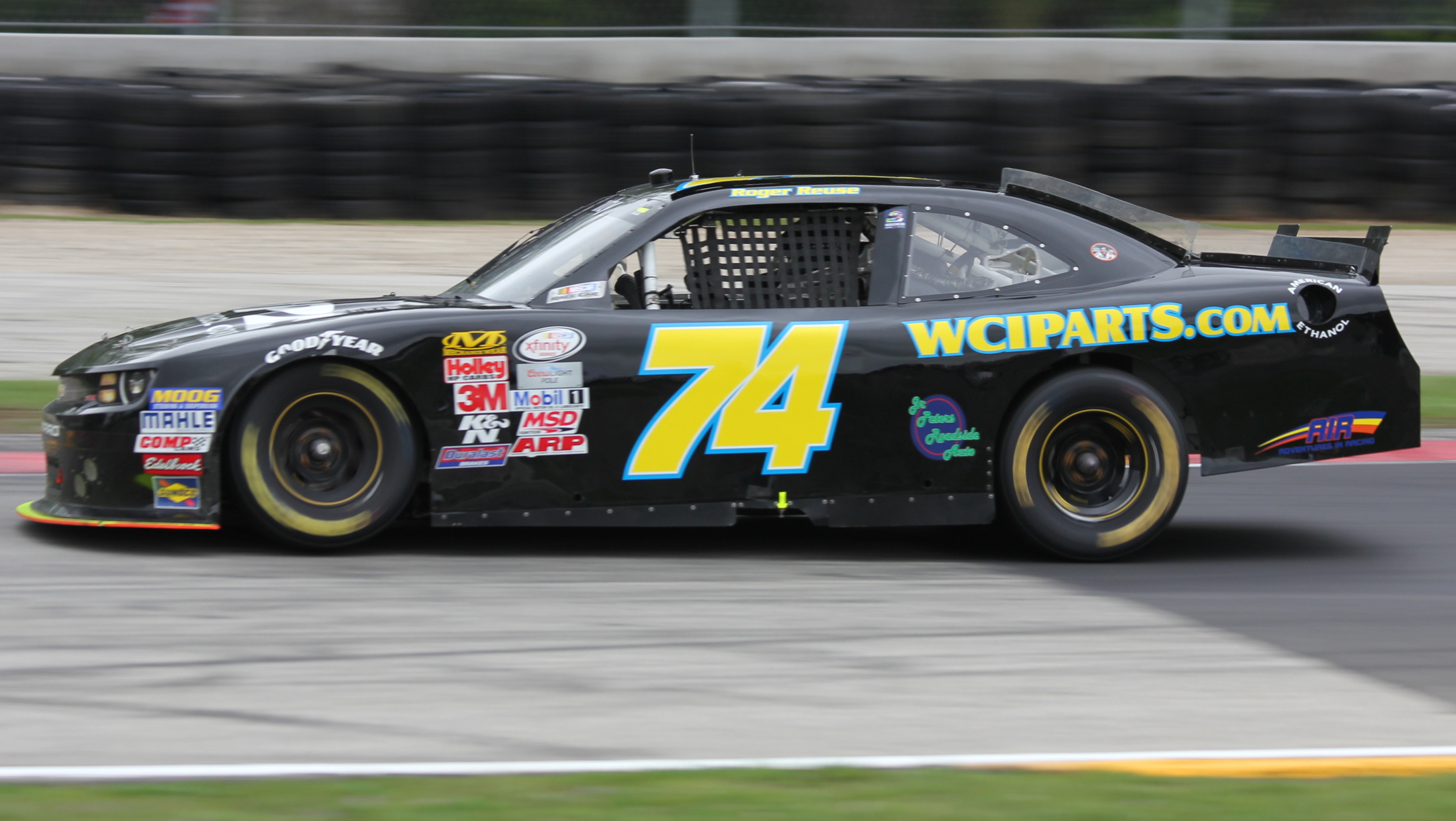 The NASCAR Xfinity Series car of Roger Reuse turning left in Turn 6 at Road America.